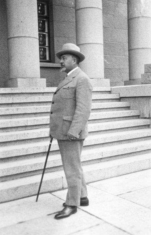 Photograph of the Finnish business executive Rafael Haarla (1876–1938) in front of his palace (Hatanpään valtatie 2, Haarlan palatsi, Tampere).